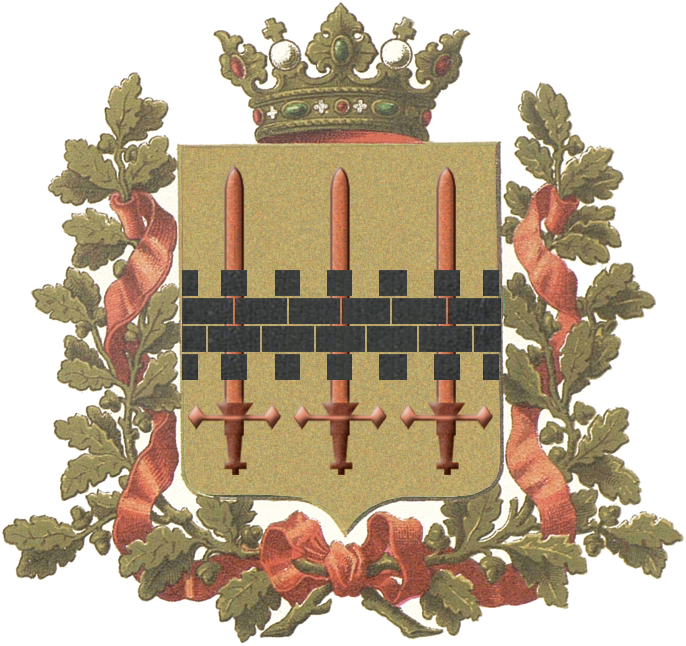 Coat of Arms of the Kars Oblast of the Russian Empire